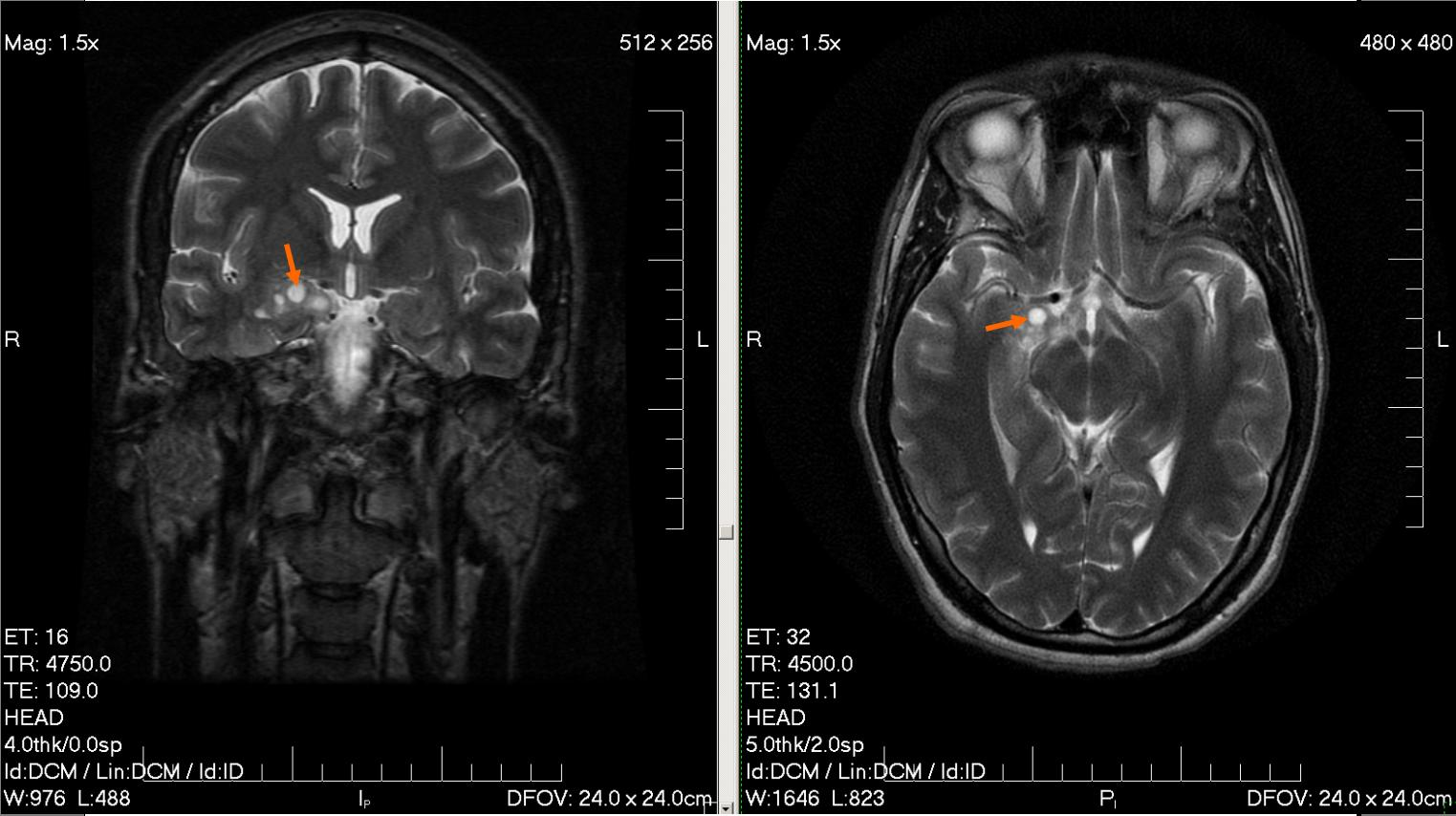 Two MRI images of my brain (rear view on left, top view on right) showing a low grade, encapsulated cyst-like glioma (or multiple gliomas). Image was created on July 10, 2007. Any expert information and opinions are appreciated.